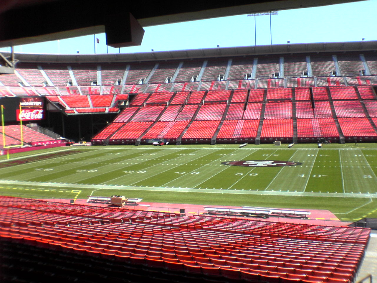 MonsterPark stadionEmpty Monster Park